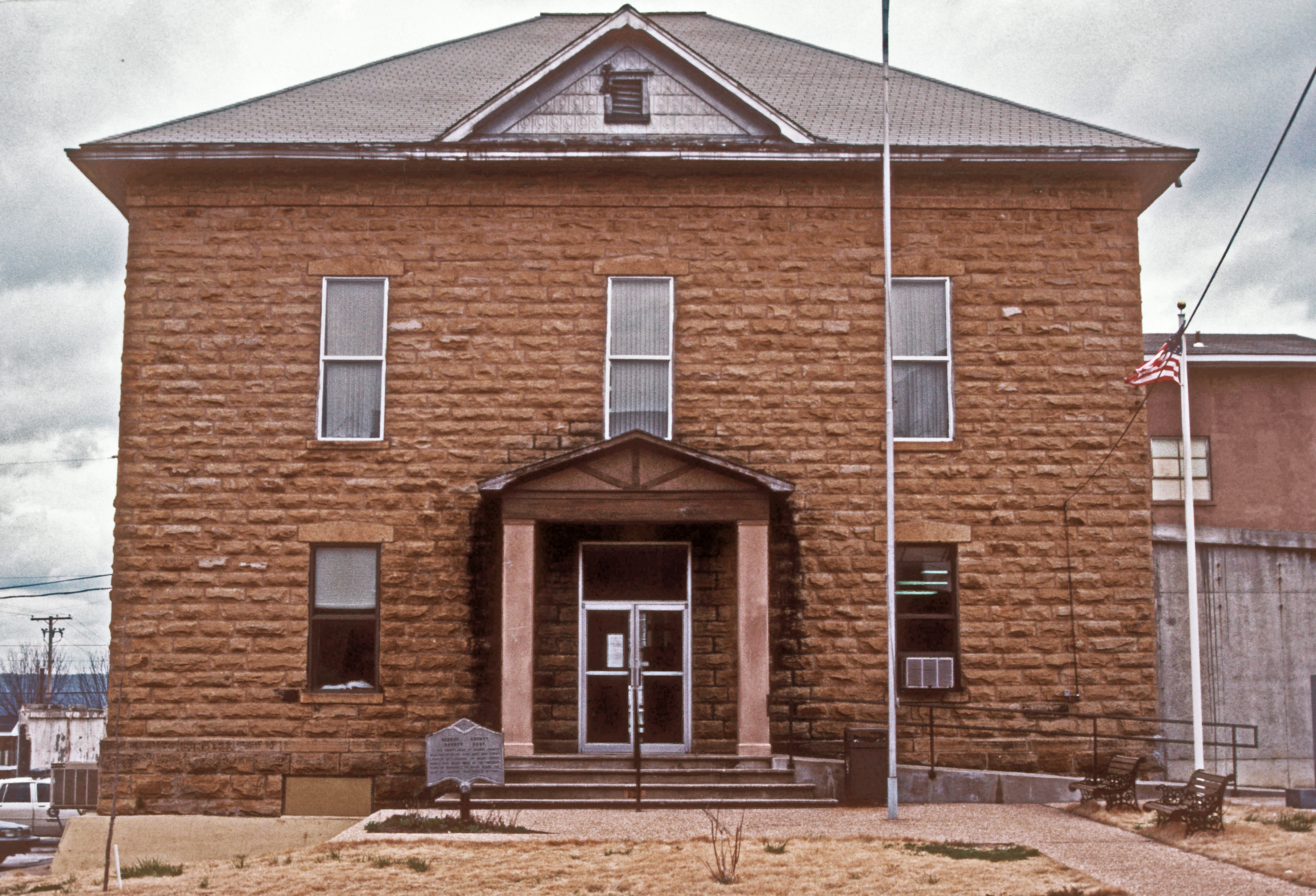 1889 ROCK FACED STONE